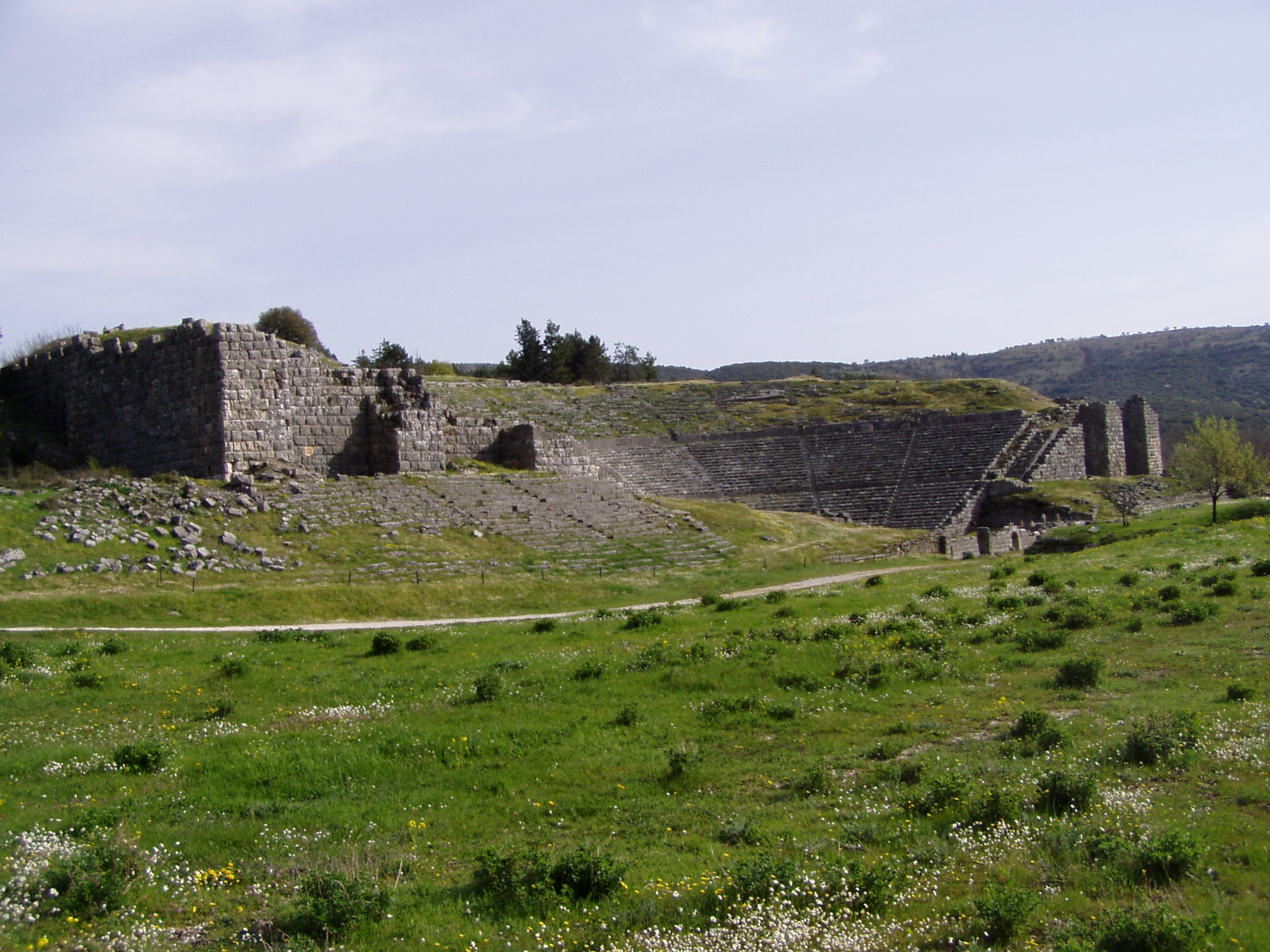 This is the Ancient Greek theatre in Dodona.